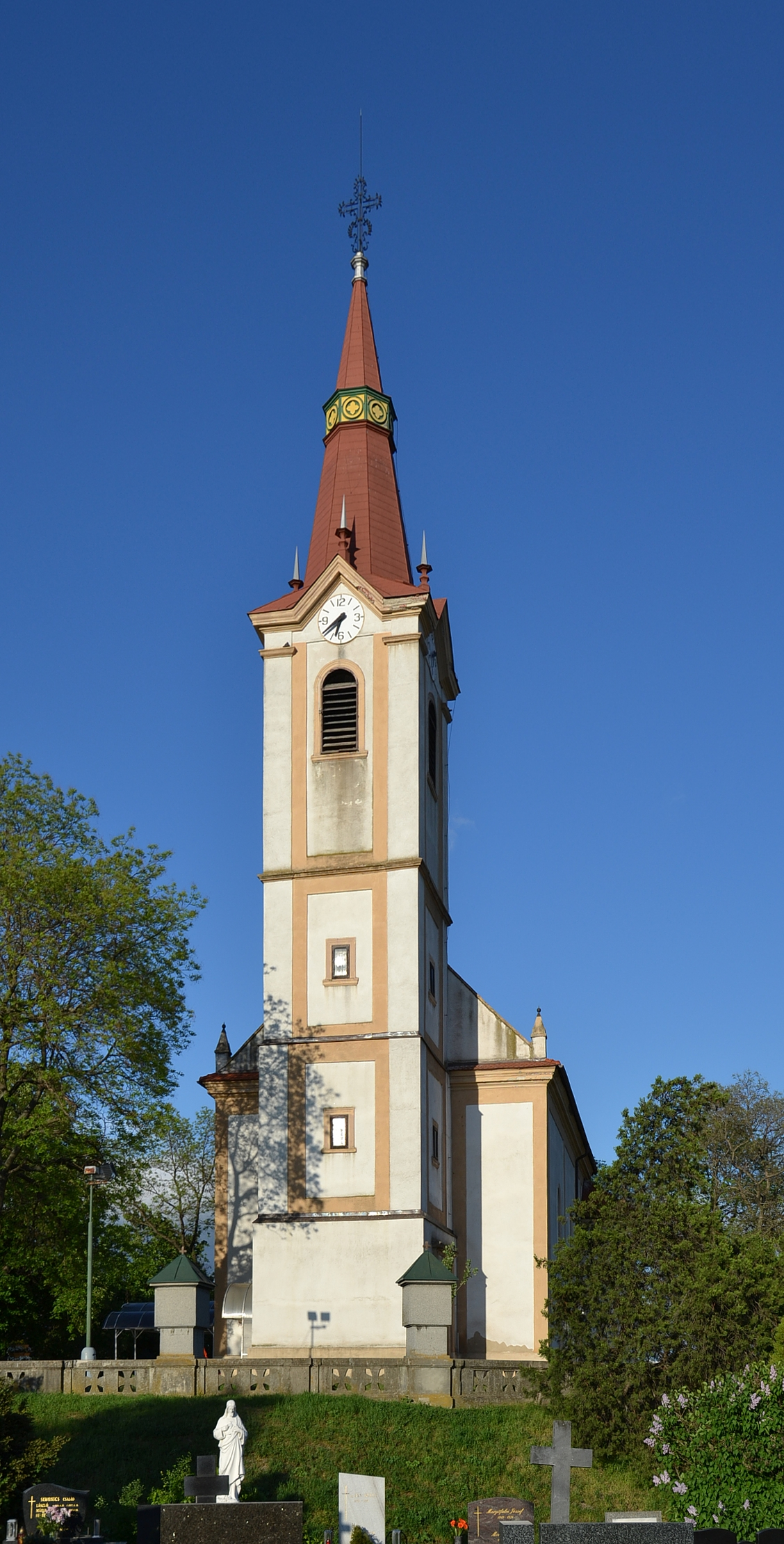 Senec (Szenc, Wartberg), Slovakia - church